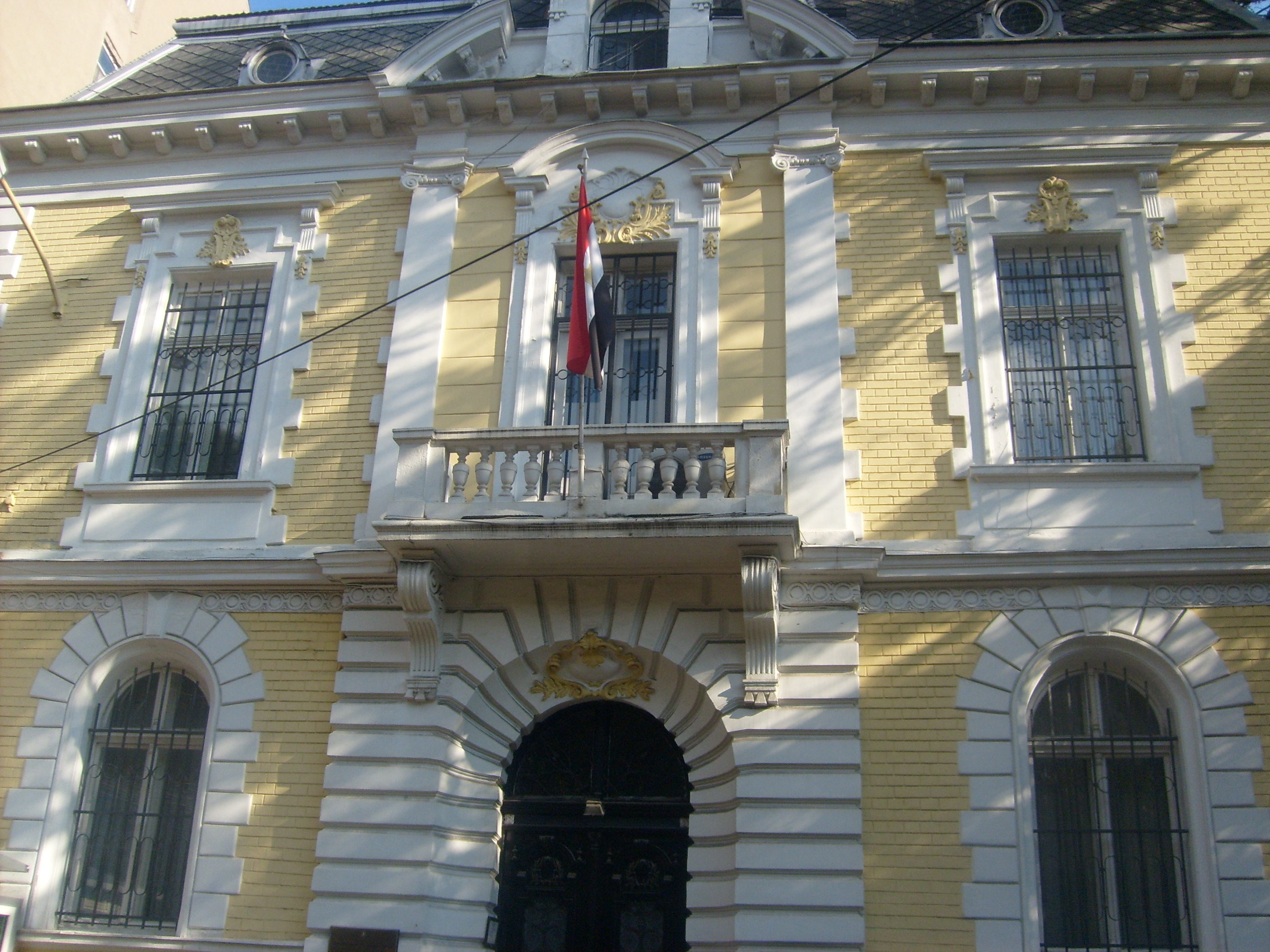 Sofia, Bulgaria Egyptian embassy